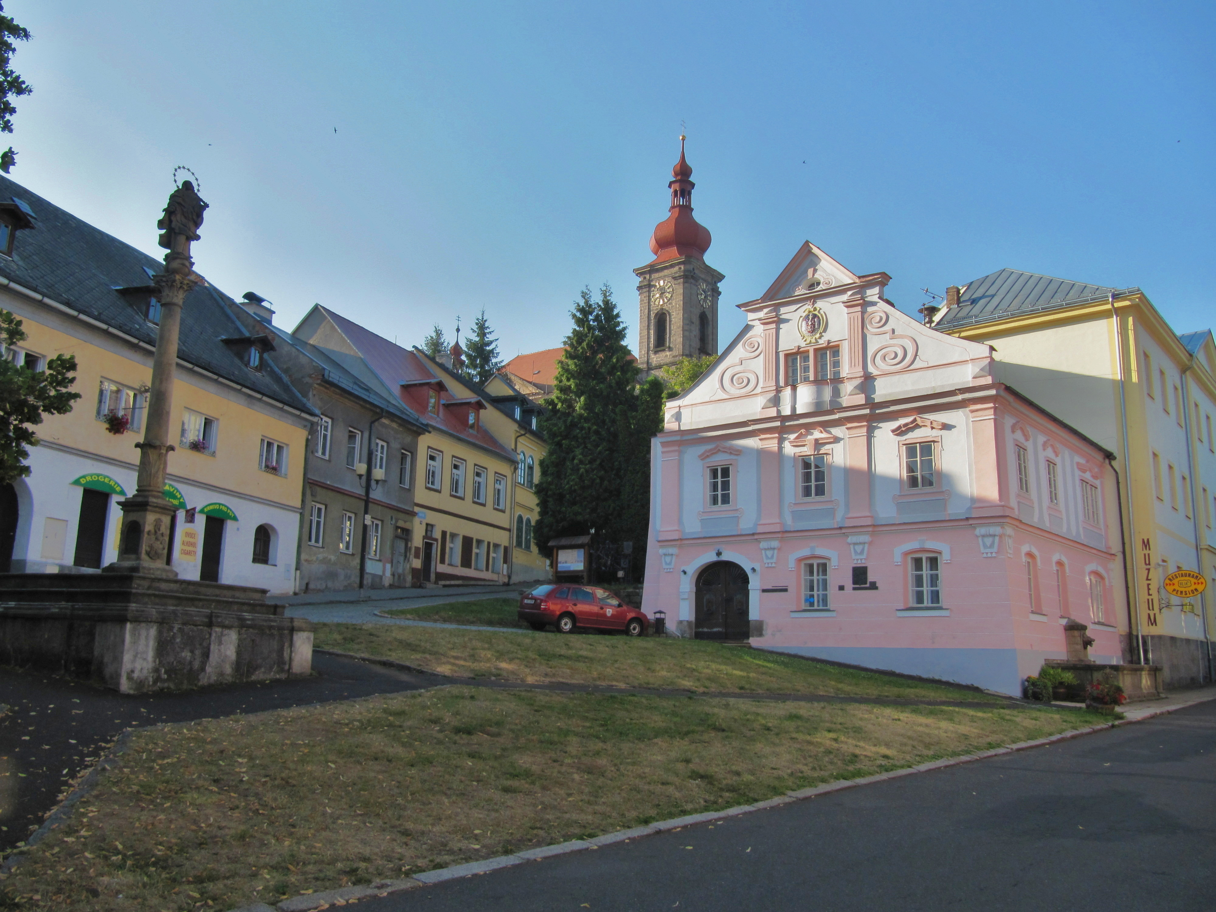 Bečov nad Teplou, Karlovy Vary District, Czech Republic.